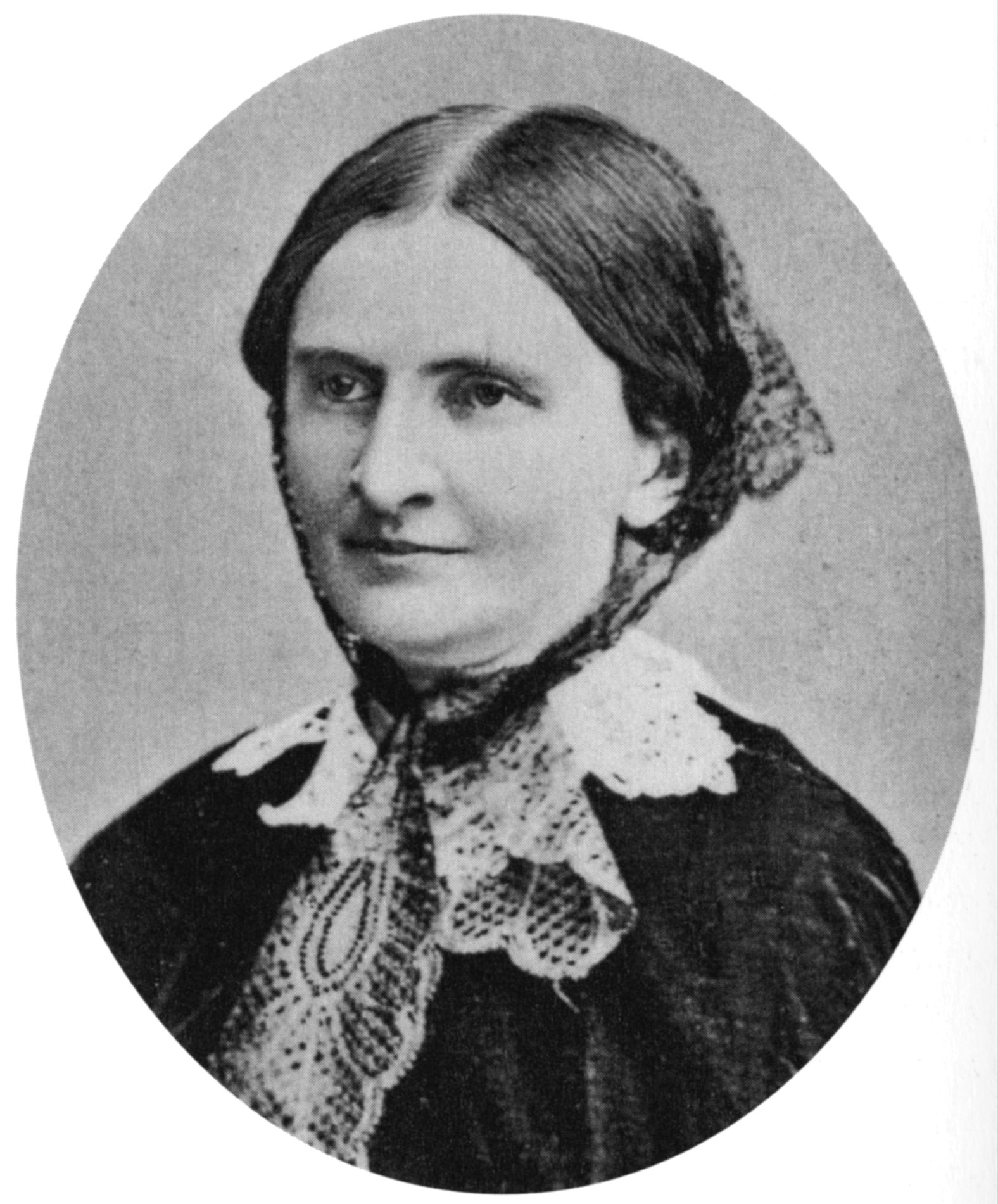 Photo of German author Marie Luise von François.